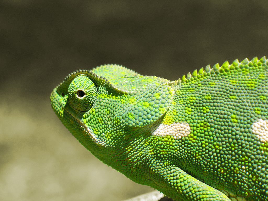 A picture of a chameleon taken by Ridard with a Canon PowerShot A620. Modified by me, Ckamaeleon on 2006-03-19: background color changed to add contrast and highlight the photo subject. Flap-Necked Chameleon (Chamaeleo dilepis), 35cm long approx. Limpopo Valley, Botswana. January 2006. Original file at Image:Chameleon_2006-01.jpg